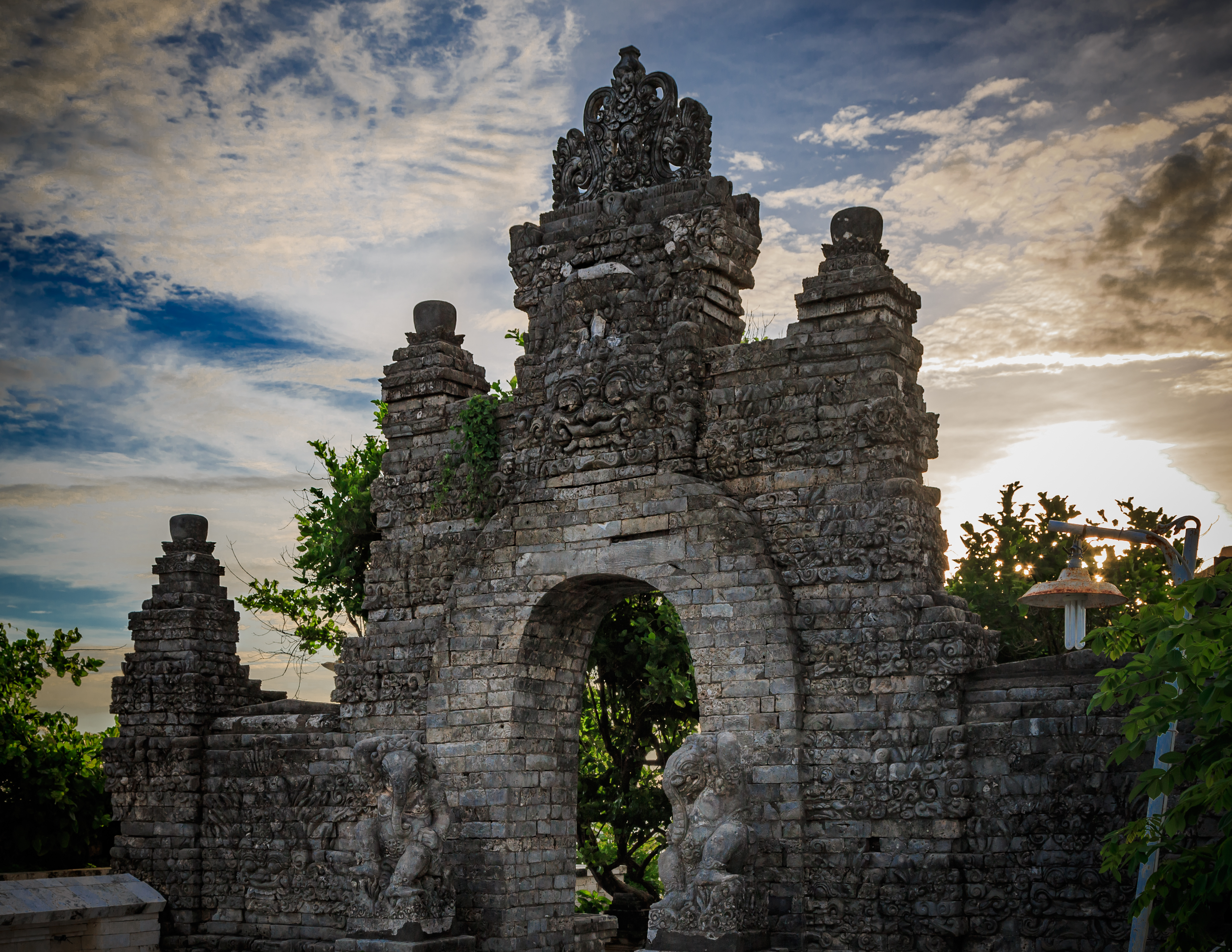 Kuta, Bali, Indonesia: Sunset at the temple of Pura Luhur Uluwatu